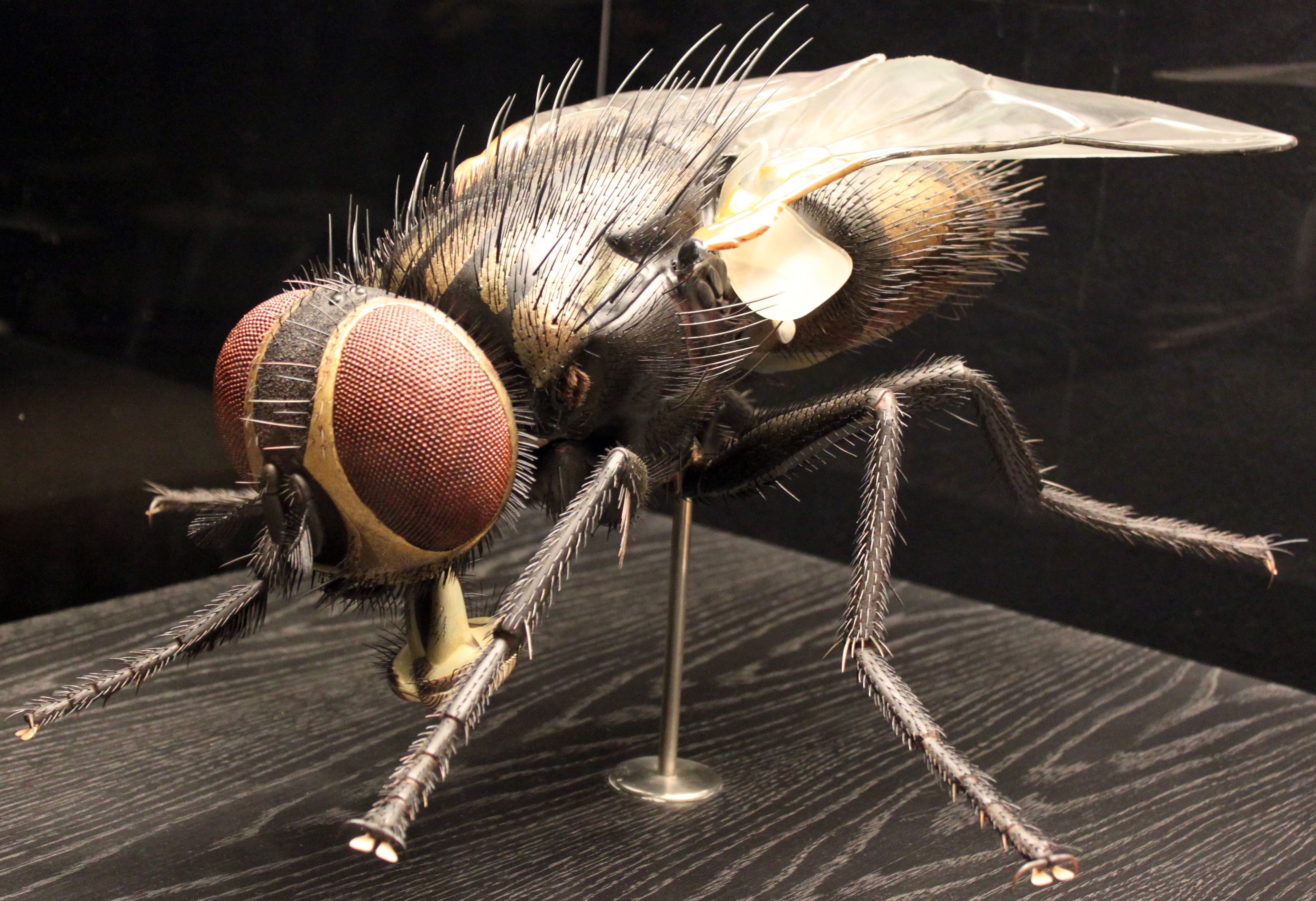 Museum of Natural History Berlin: a model of a housefly (musca domestica), made ​​by Alfred Keller in the year 1932